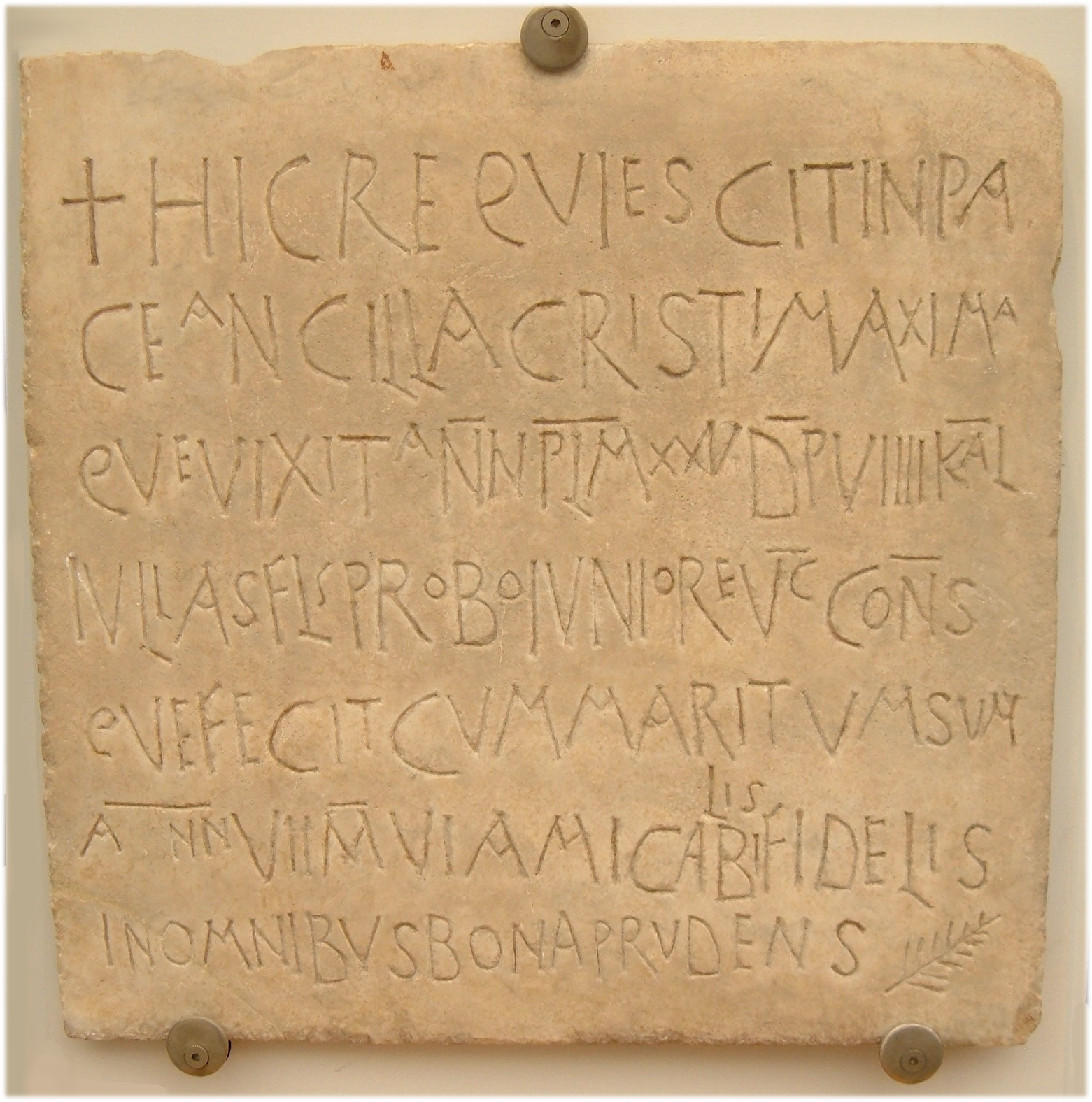 "Here rests in peace, Maxima a servant of Christ who lived about 25 years and (was) laid (to rest) 9 days before the Kalends of July of the year when the senator Flavius Probus the younger was consul [modern: June 23, 525]. She lived with her husband (for) seven years and six months. (She was) most friendly, loyal in everything, good and prudent." Early Christian funerary inscription in italic writing, 525 AD. Note the cross, the (now common) phrase hic requiescit in pace (here rests in peace) and the epithet ancilla Christi (servant of Christ), which are Christian elements. The mention of her age, the time she lived with her husband, her character and dating of the burial, relative to the Kalends and mentioning the ruling consul to specify the year, show a clear Roman influence. The grammatical errors and the uneven, italic script betray a non-professional scribe. Museo Epigraphico, Terme di Diocleziano, Rome, Italy